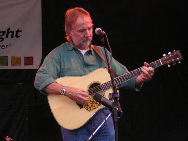 Picture of Herb Pedersen performing at the Three Rivers Arts Festival in Pittsburgh, Pennsylvania, on June 16, 2004.